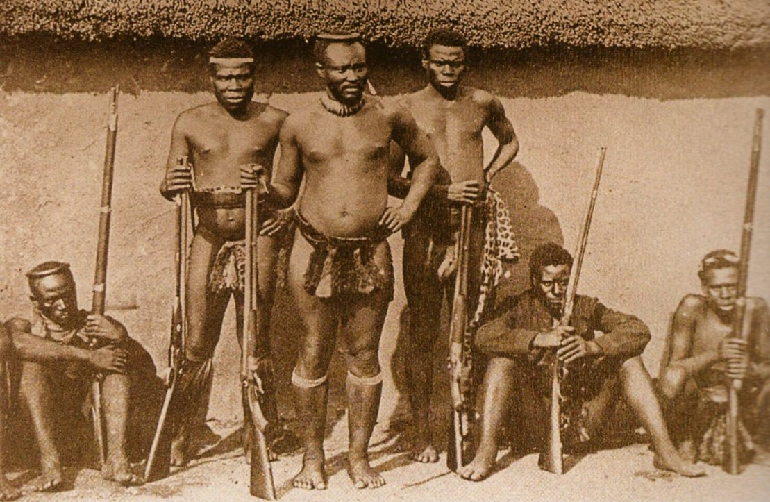 Prince Dabulamanzi KaMpande, Cetshwayo's half-brother who was the commander at Rorke's Drift and Gingindlovu. His troops have a wide variety of firearms.